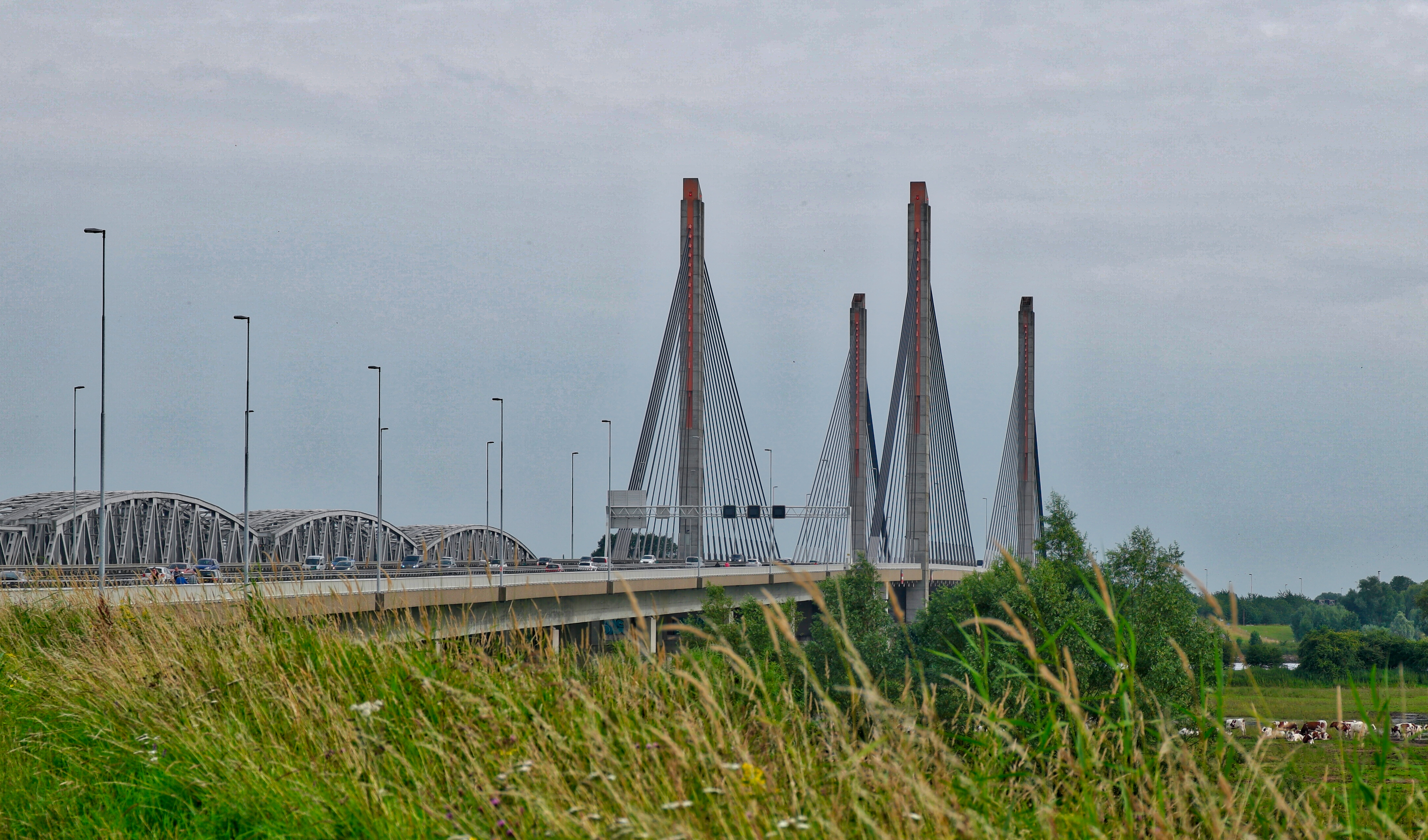 The Martinus Nijhoff bridge crossing the Waal.